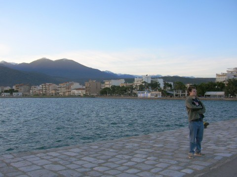 Waterfront at Itea, Greece